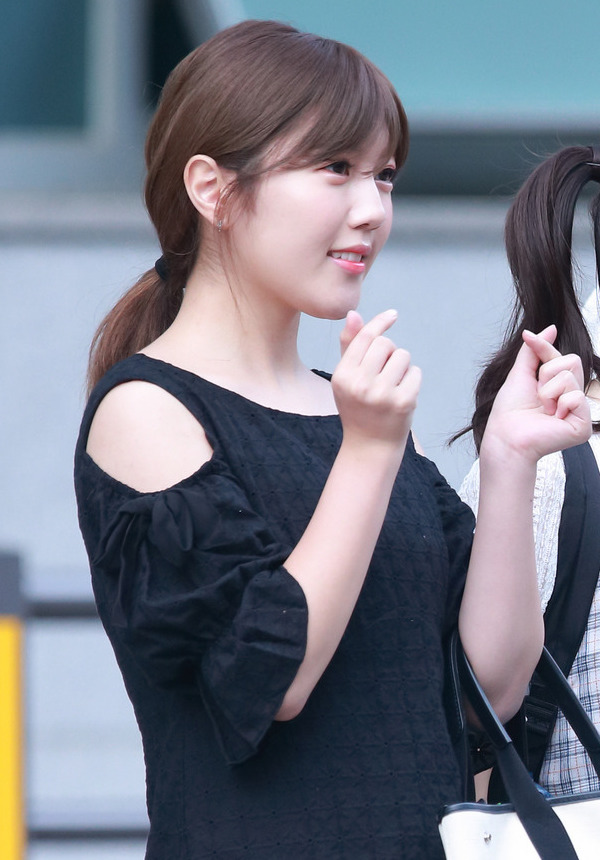 Honda Hitomi going to a Produce 48 evaluation on August 5, 2018